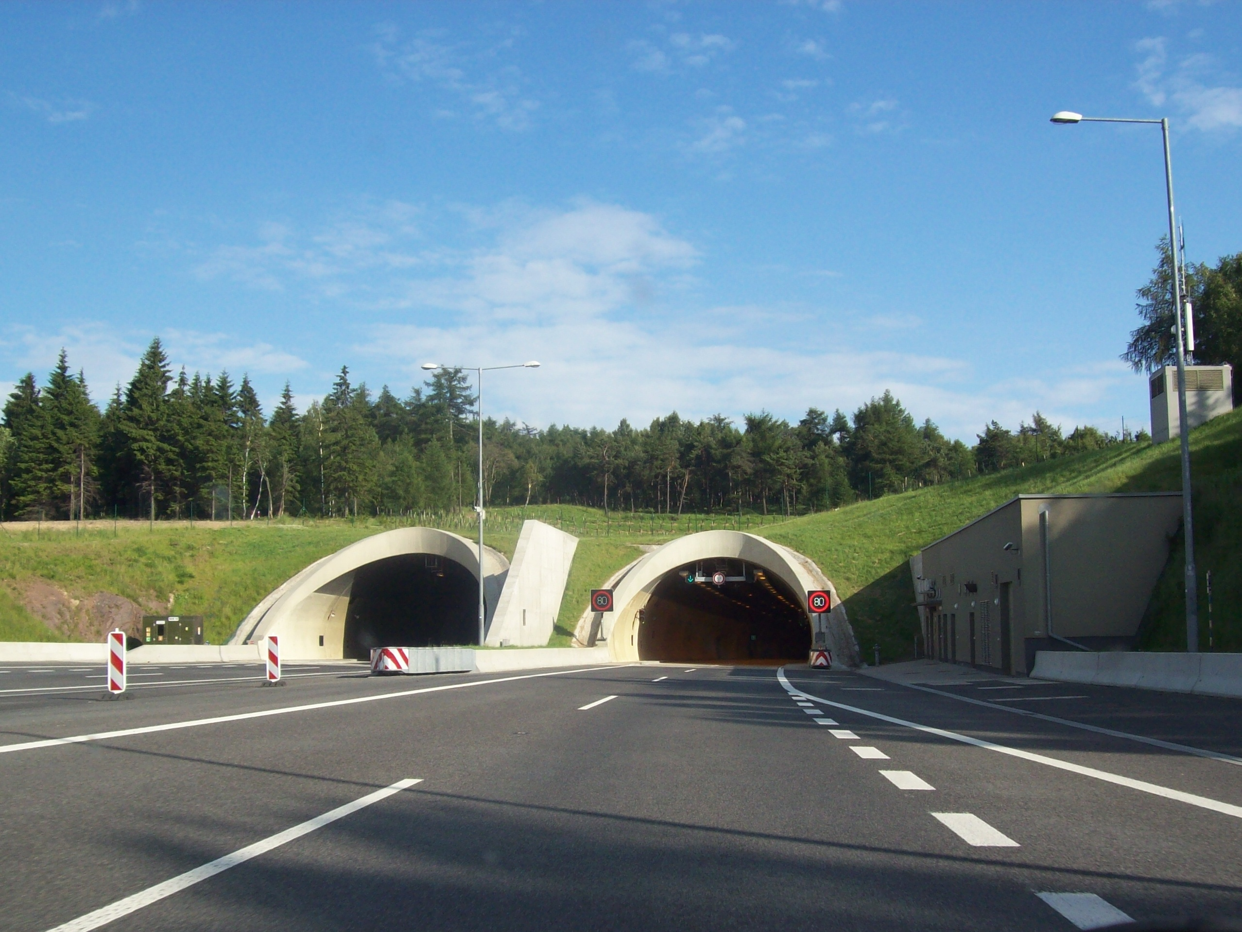 Motorway D8, CZ, Panenská tunnel - north